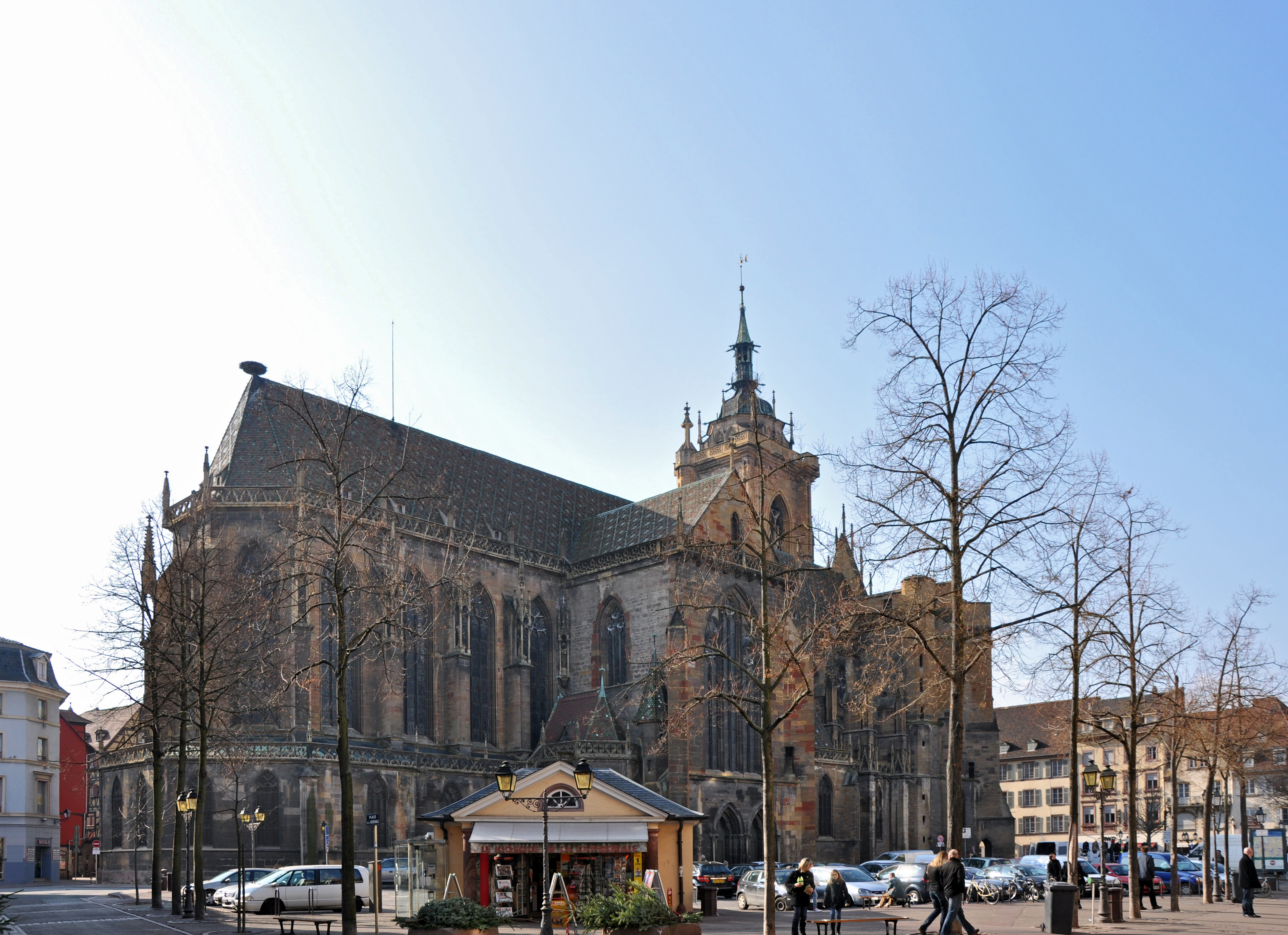 The north transept of the St-Martin's Church on place de la Cathédrale in Colmar (Haut-Rhin, France). .